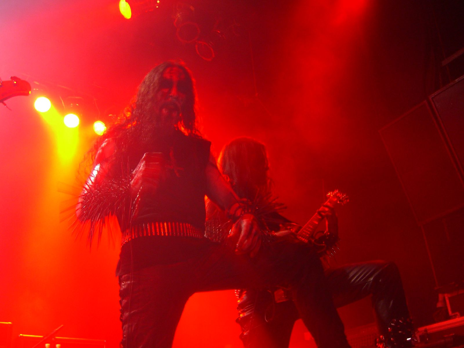 Gaahl and Infernus live in Brazil in 2007